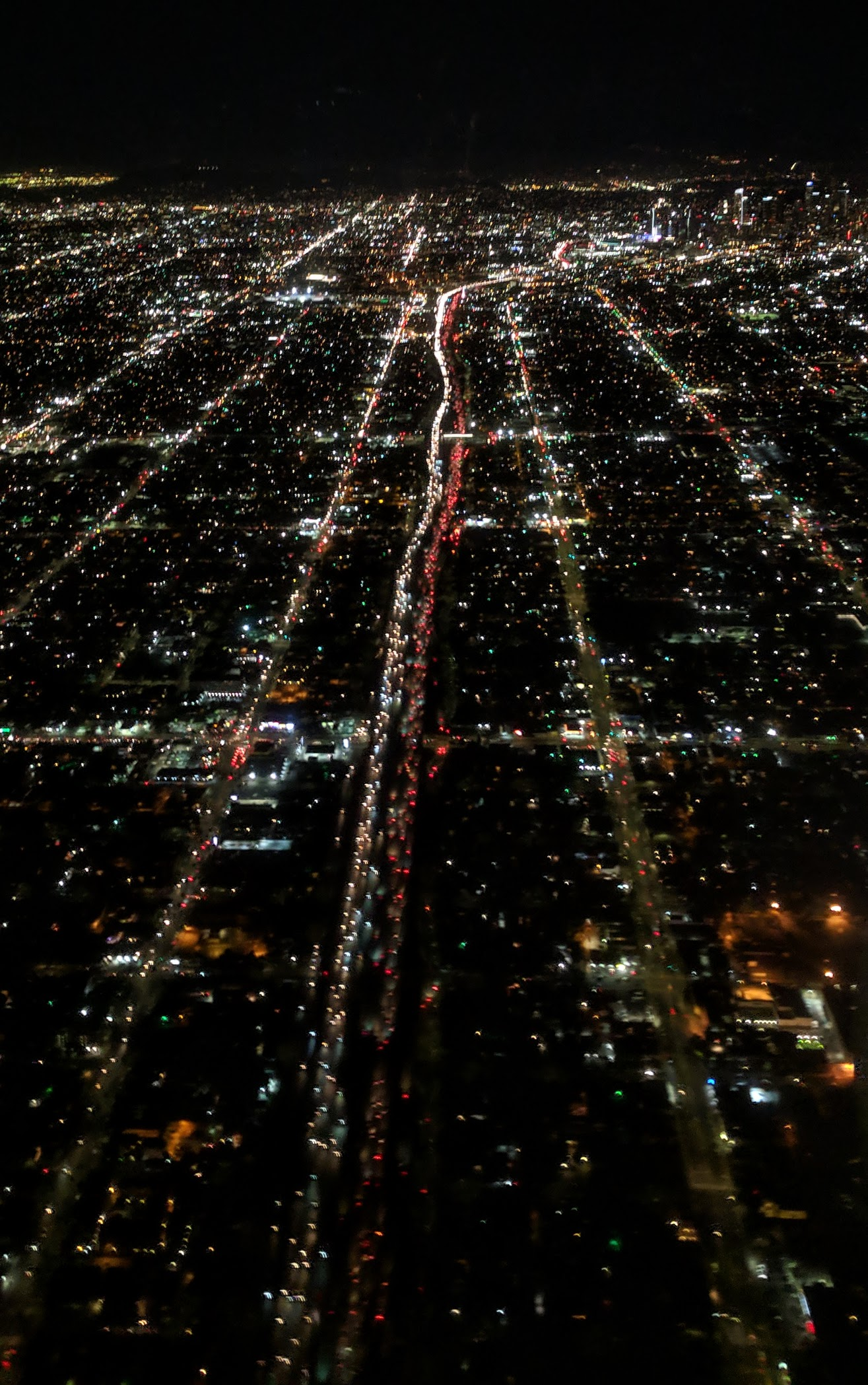 Figueroa Street, Harbor Freeway, and S Broadway night aerial from the south, from over the approach to LAX, near the Century Freeway, with downtown in the distance. Prominent cross streets are Florence Ave., Slauson Ave., and Vernon Ave.